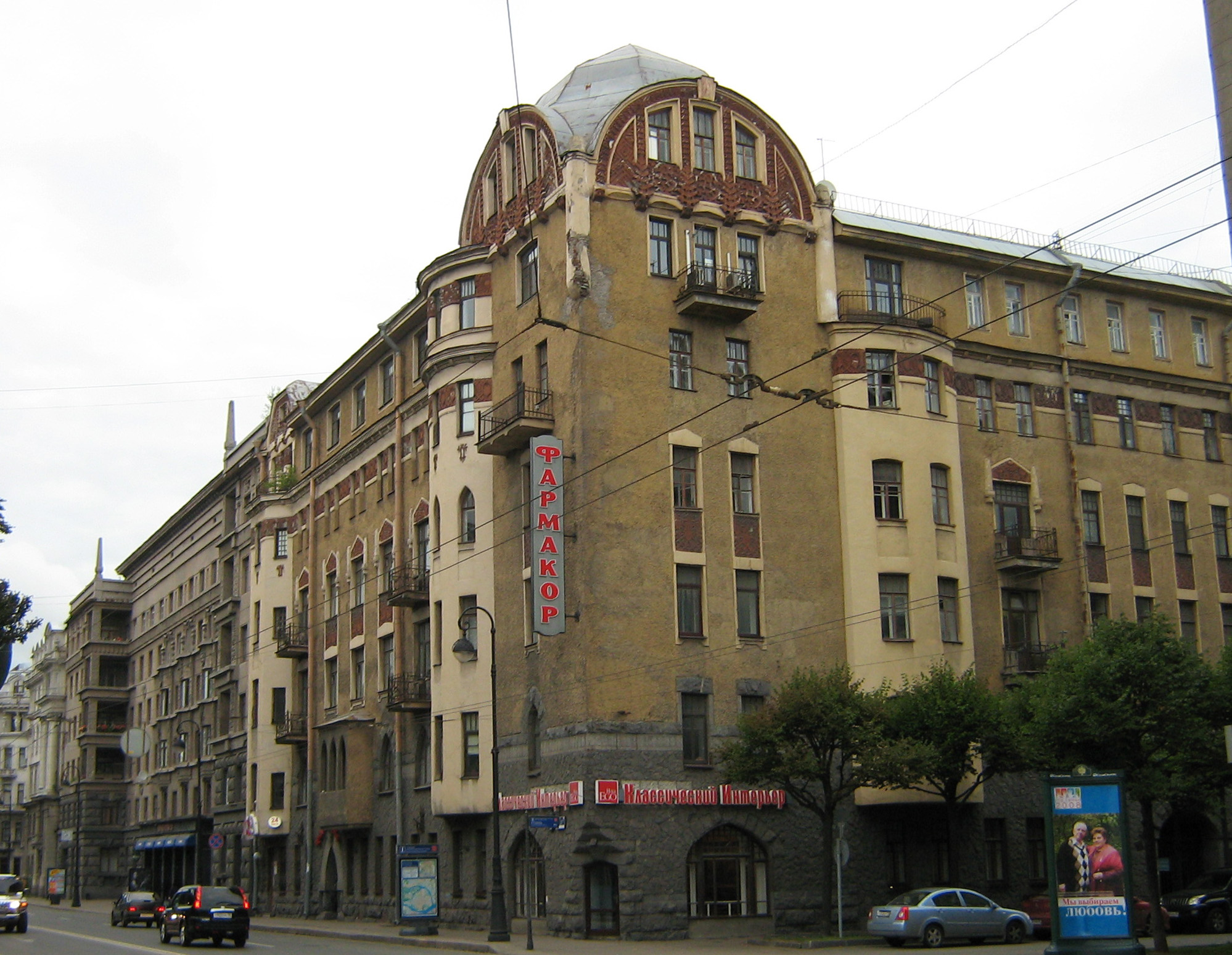 Kamennoostrovsky av., 67, Saint-Petersburg, Russia (architect K. V. Markov, 1908).